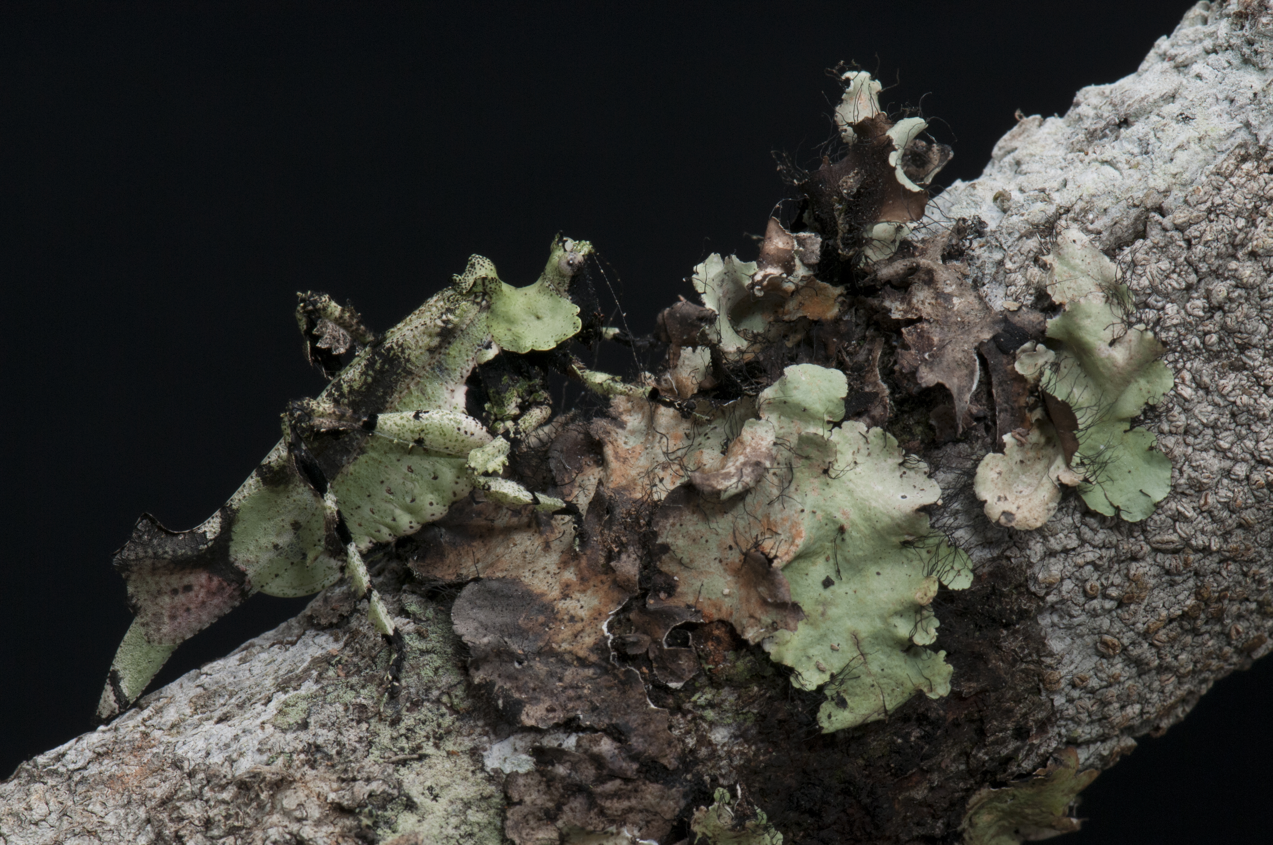 Dysonia - ?